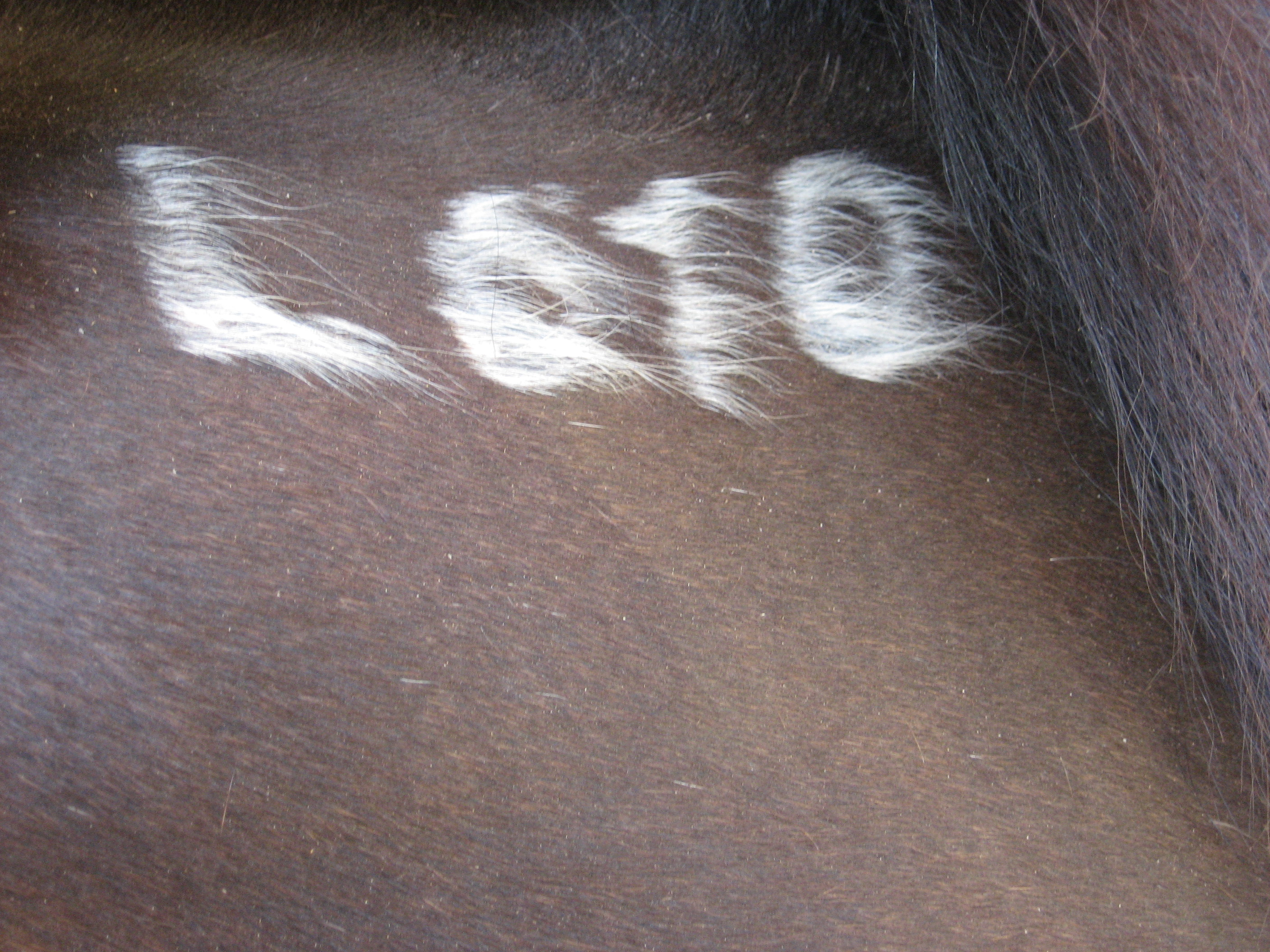 Freeze brand done with liquid nitrogen: it is on the neck, just below the mane. The horse is a bardigiano pony.